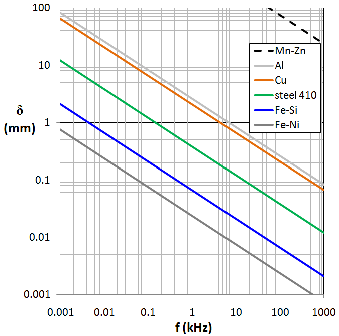 Skin depth vs. frequency for various materials. The equation used for skin depth calculation was δ = 2 ρ ω μ {\displaystyle \delta ={\sqrt 2\rho } \over {\omega \mu where: δ - skin depth, ρ = resistivity of the material, ω = angular frequency = 2π × frequency, μ = absolute magnetic permeability (μr×μ0) The materials are as follows: Mn-Zn - soft ferrite 3C90 from Ferroxcube, initial permeability = 2300 (initial, 25 deg C, 10 kHz) and resistivity = 5 Ωm based on catalogue data [1], such ferrite is not a good conductor so the curve is shown here as dashed, just for demonstration how much better such materials are at higher frequencies Al - aluminium, relative permeability = 1, resistivity = 2.7e-8 Ωm based on data from MatWeb [2] Cu - copper, relative permeability = 1, resistivity = 1.7e-8 Ωm based on data from MatWeb [3] steel 410 - magnetic stainless steel 410, permeability = 1000 and resistivity = 5.7e-7 Ωm based on data from MatWeb [4], the highest value of quoted permeability (1000) is used for "worst case" scenario Fe-Si - grain oriented electrical steel (around 97% Fe and 3% Si) from AK Steel manufacturer, permeability = 29,000 and resistivity = 5e-7 Ωm based on manufacturer bulletin [5], maximum value of permeability is read out from the radial plot and it is used to demonstrate the "worst case" scenario Fe-Ni - permalloy (trade name of VACUUMSCHMELZE GmbH & Co. KG is Mumetall), alloy mainly of Fe (around 20%) and Ni (around 80%), values of permeability = 250,000 [6] and resistivity = 5.5e-7 Ωm [7] are based on the manufacturer data. Red vertical line indicates 50 Hz frequency.